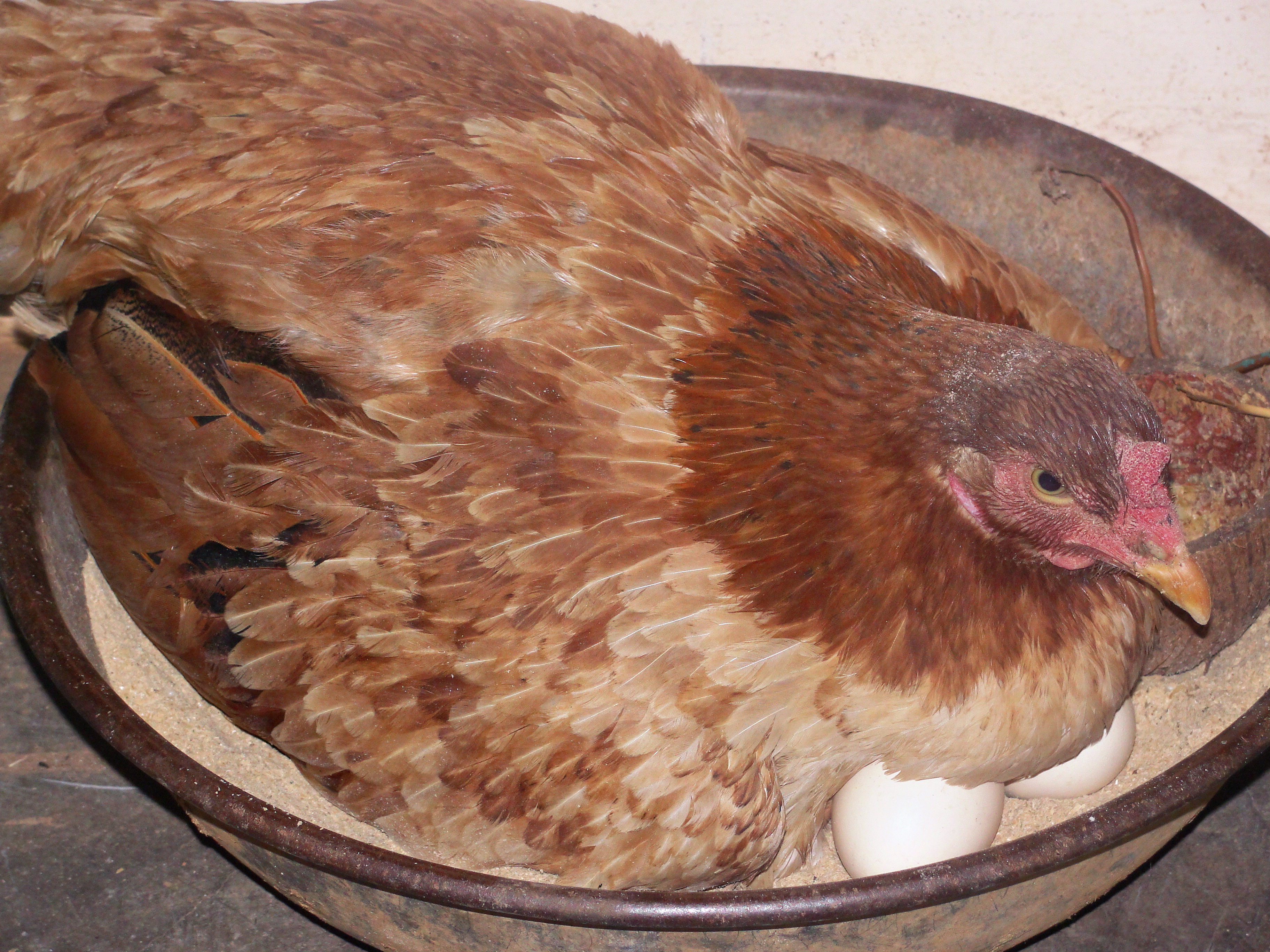 A brooding scene